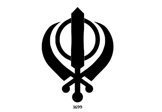 smoothened edges using paint. added year of formation.